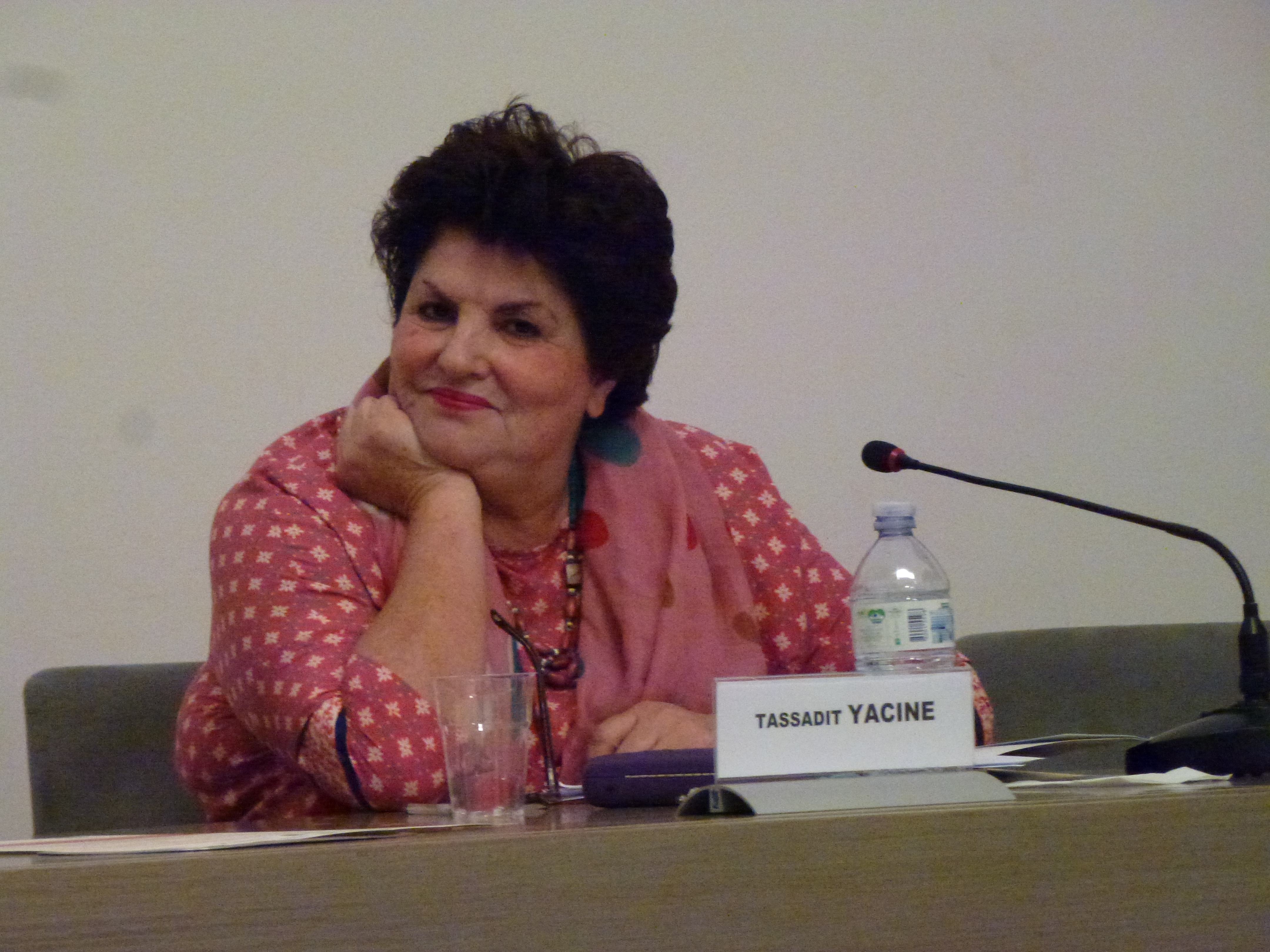 Tassadit Yacine during a conference in 2015